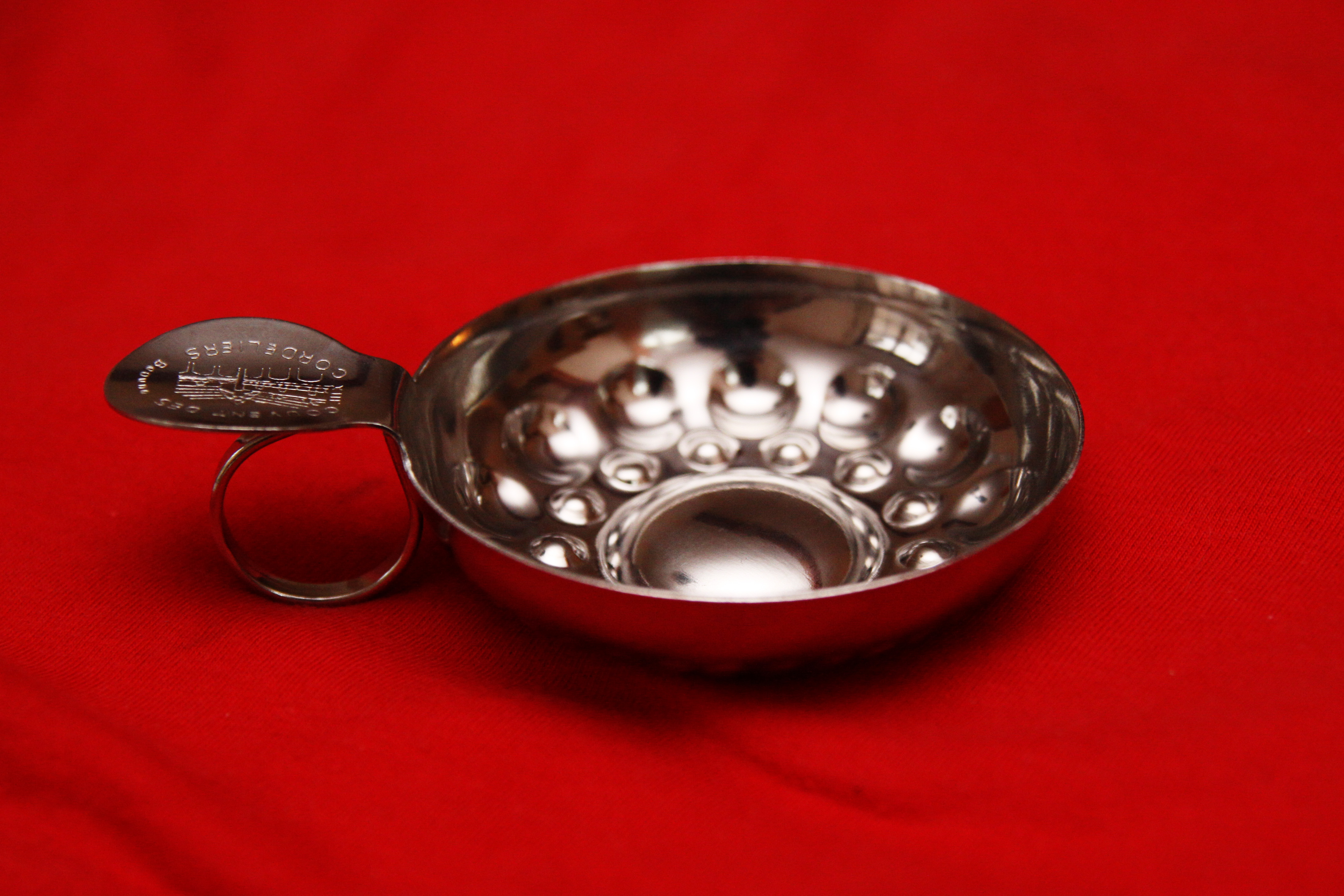 téastevin. inscription reads: BOURG COUVENT DES CORDELIERS